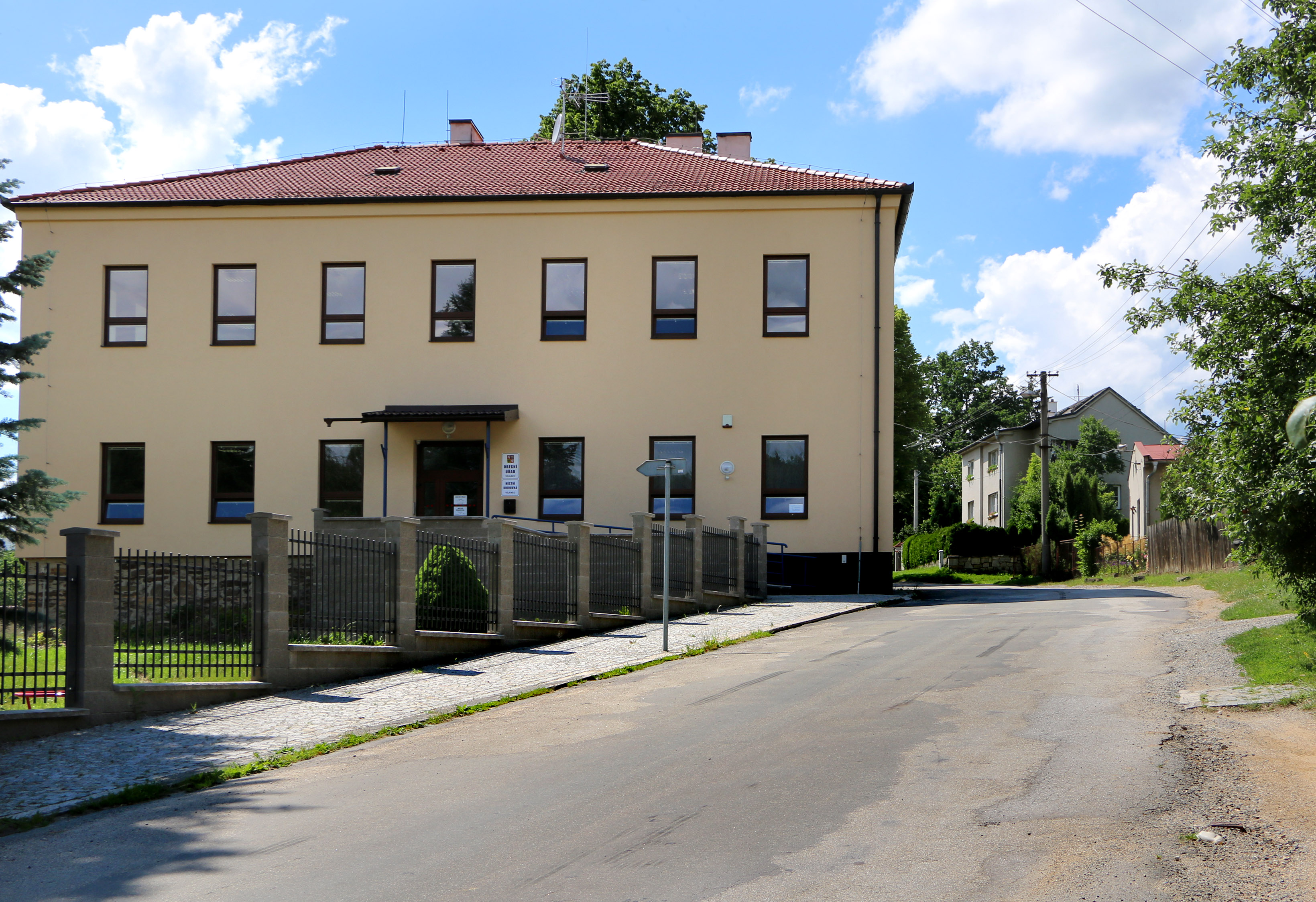 Old school, now municipal office in Vílanec village, Czech Republic.